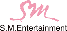 S.M. Entertainment's logo, used until 2017.